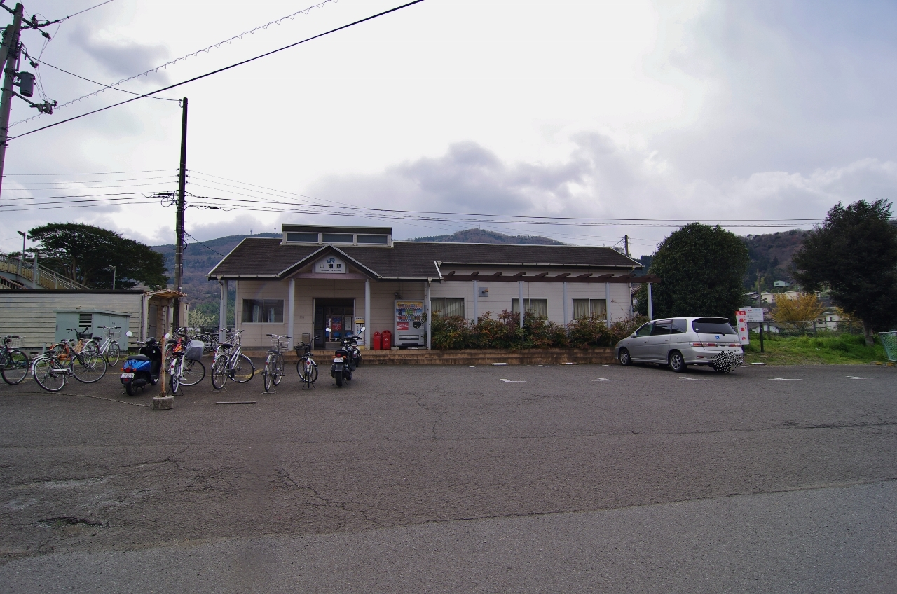 JR Shikoku Tokushima Line Yamase Station building